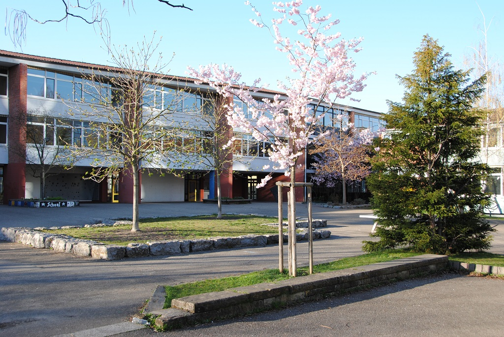 The schoolyard in spring.